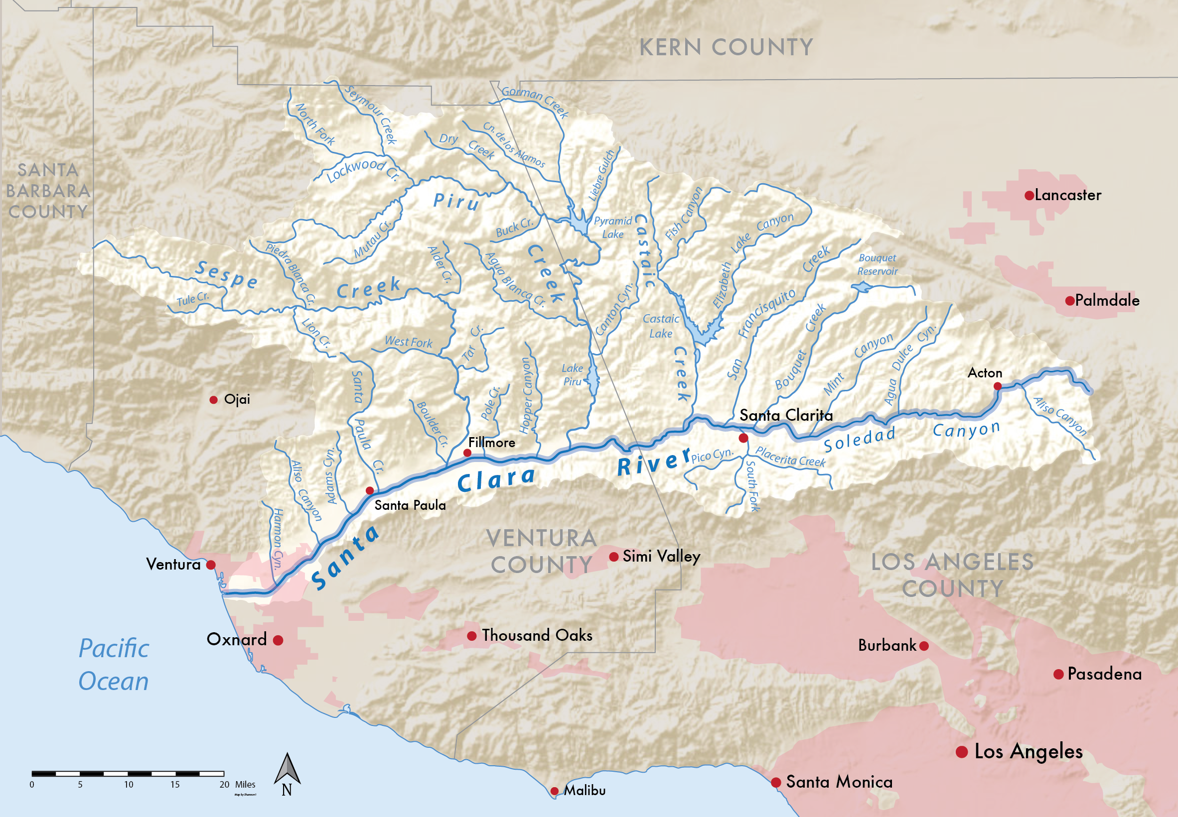 Map of the Santa Clara River basin in Southern California. Shaded Relief and Watershed boundary data from the USGS National Map (public domain).